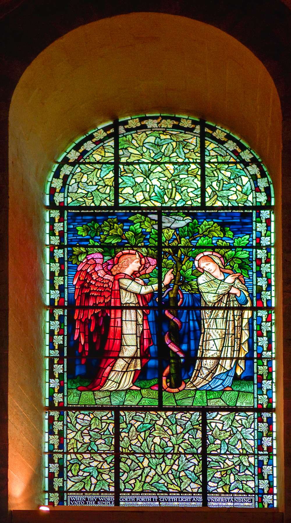 When Thy Word Goeth Forth It Giveth Light and Understanding Unto the Simple